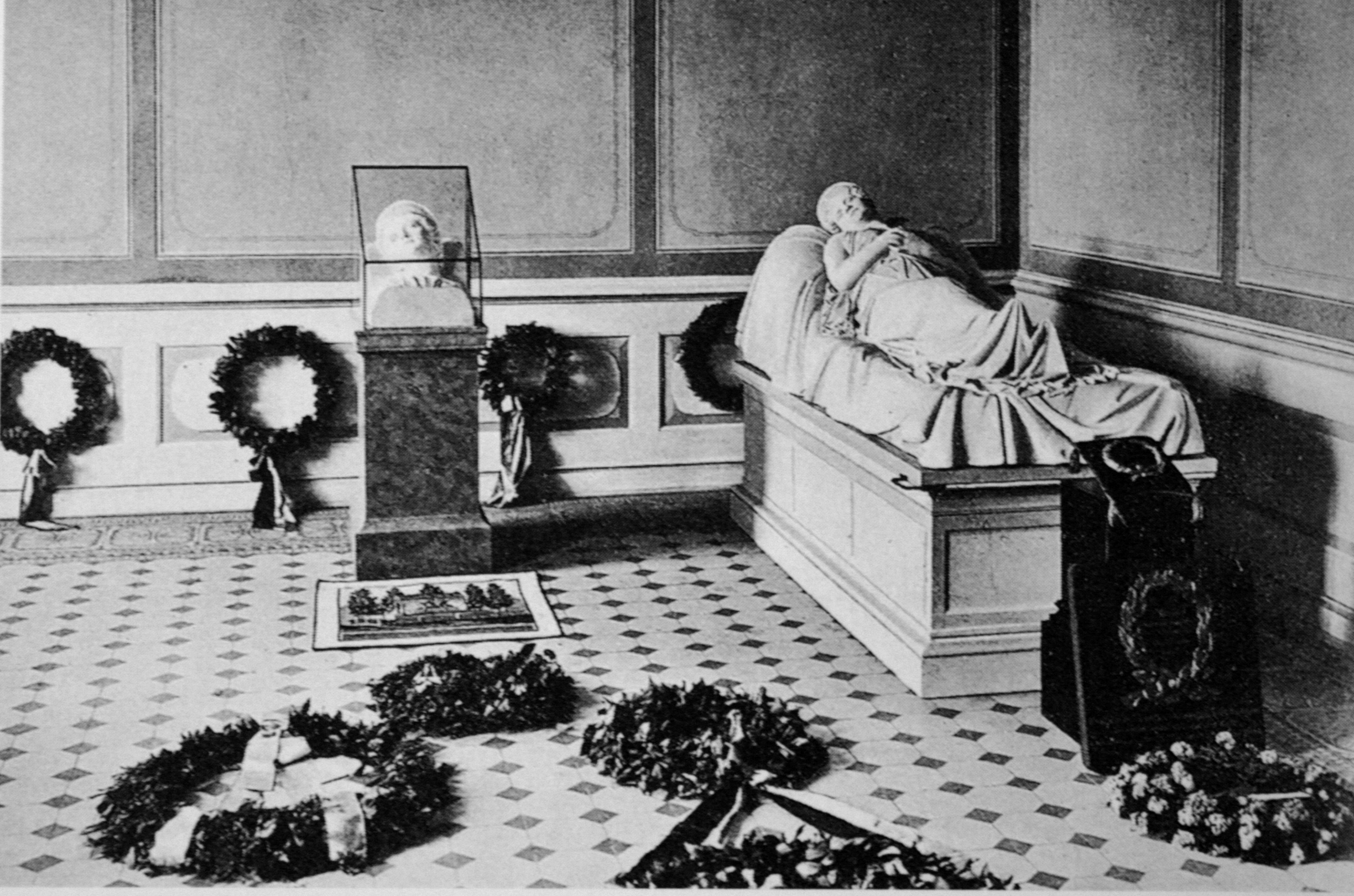 Fotografie der Gedenkstätte im Sterbezimmer der preußischen Königin Louise auf Schloss Hohenzieritz, Mecklenburg-Vorpommern, Aufnahme von 1910.